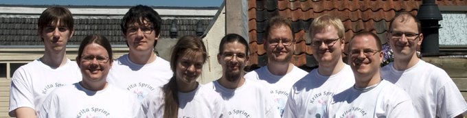 Krita team: Steven, Stuart, Lukas, Wolthera, Timothee, Boud, Sven, Leinir and Dmitry.